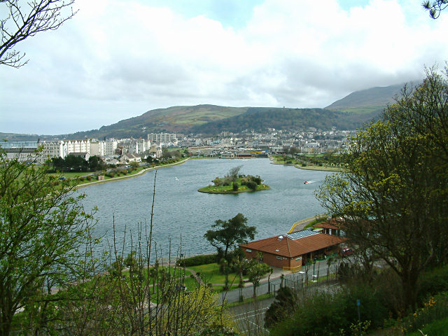 Mooragh Park, Ramsey